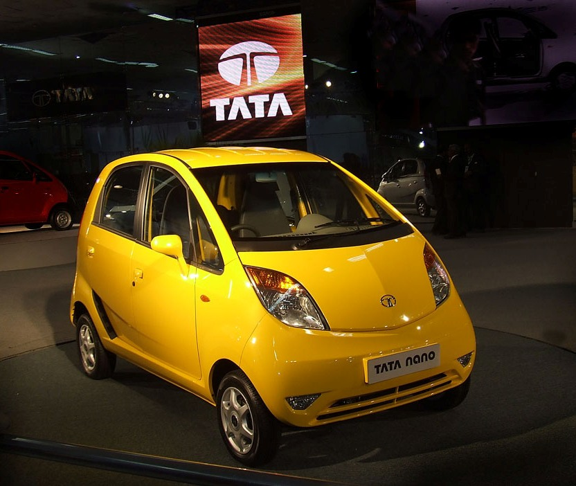 Planet's cheapest car, the Nano xj.